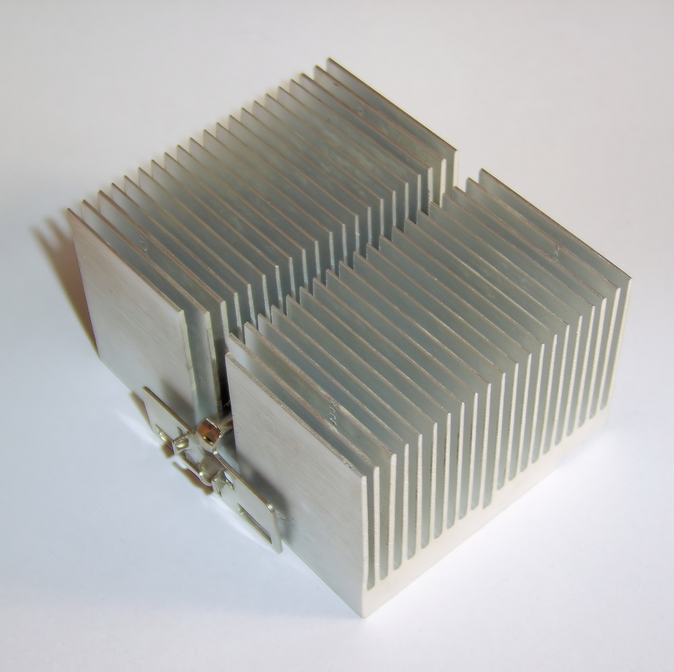 Heat sink